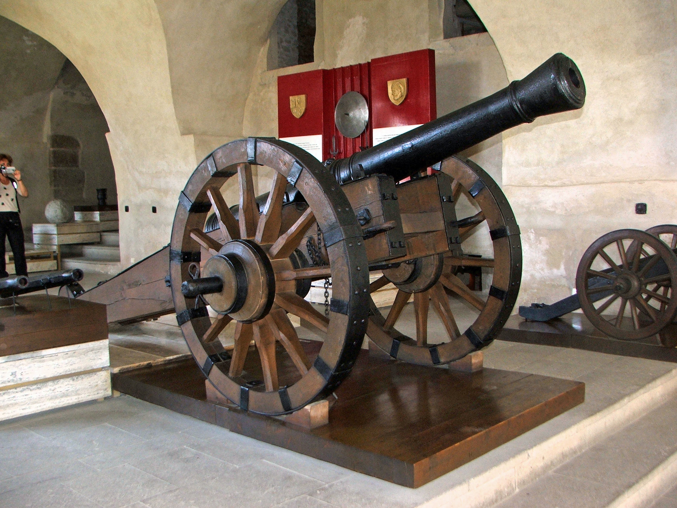 Spis Castle, weapon collection in museum